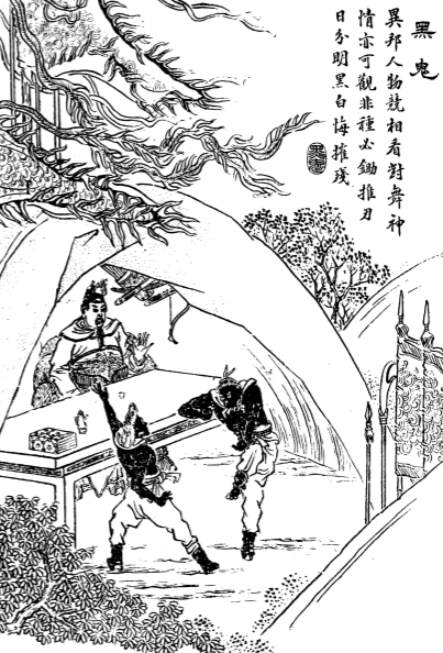 19th-century illustration of a scene from the short story "The Black Ghosts" collected in Strange Tales from a Chinese Studio (1740).